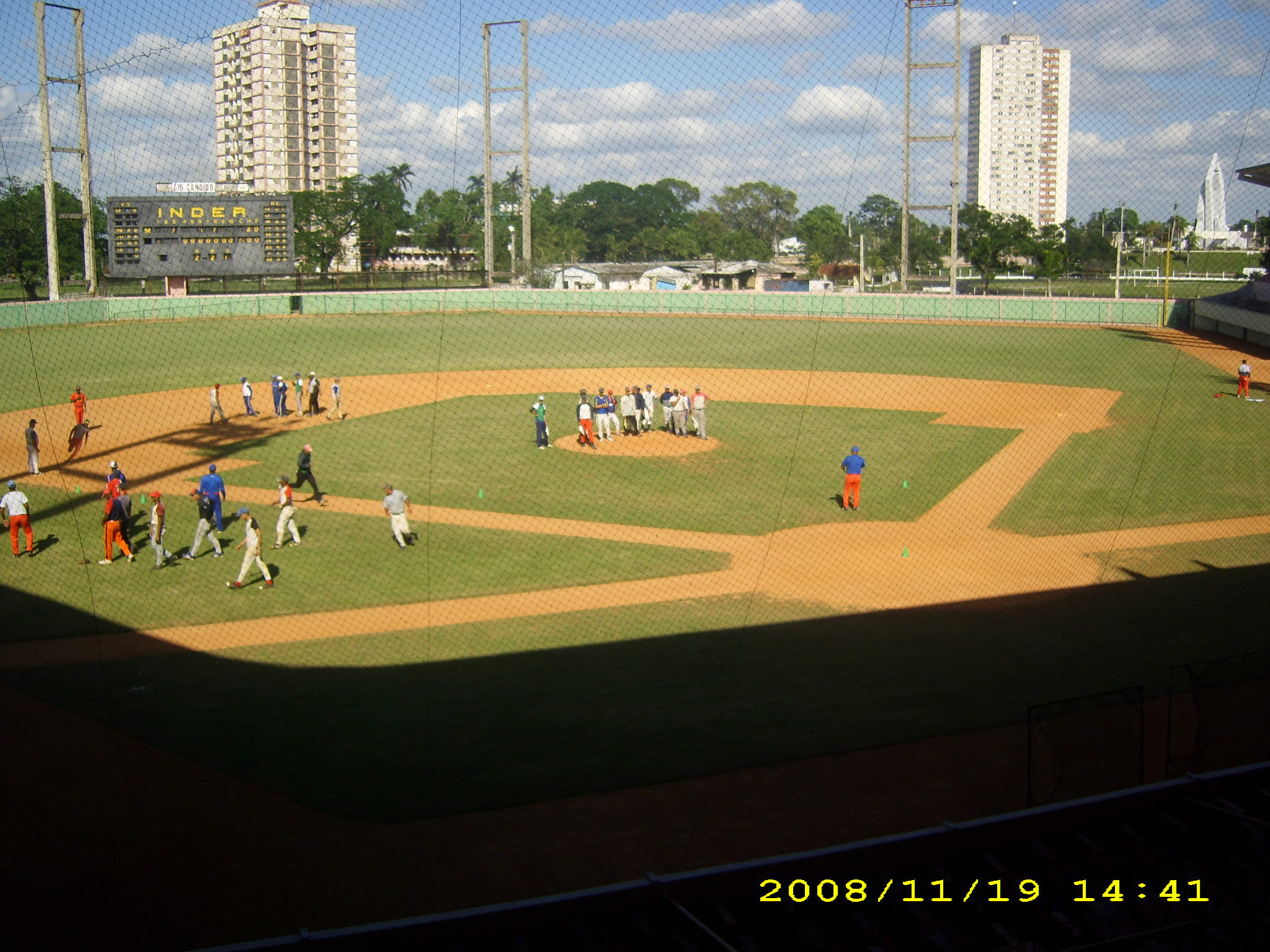 Candido Gonzalez Stadium